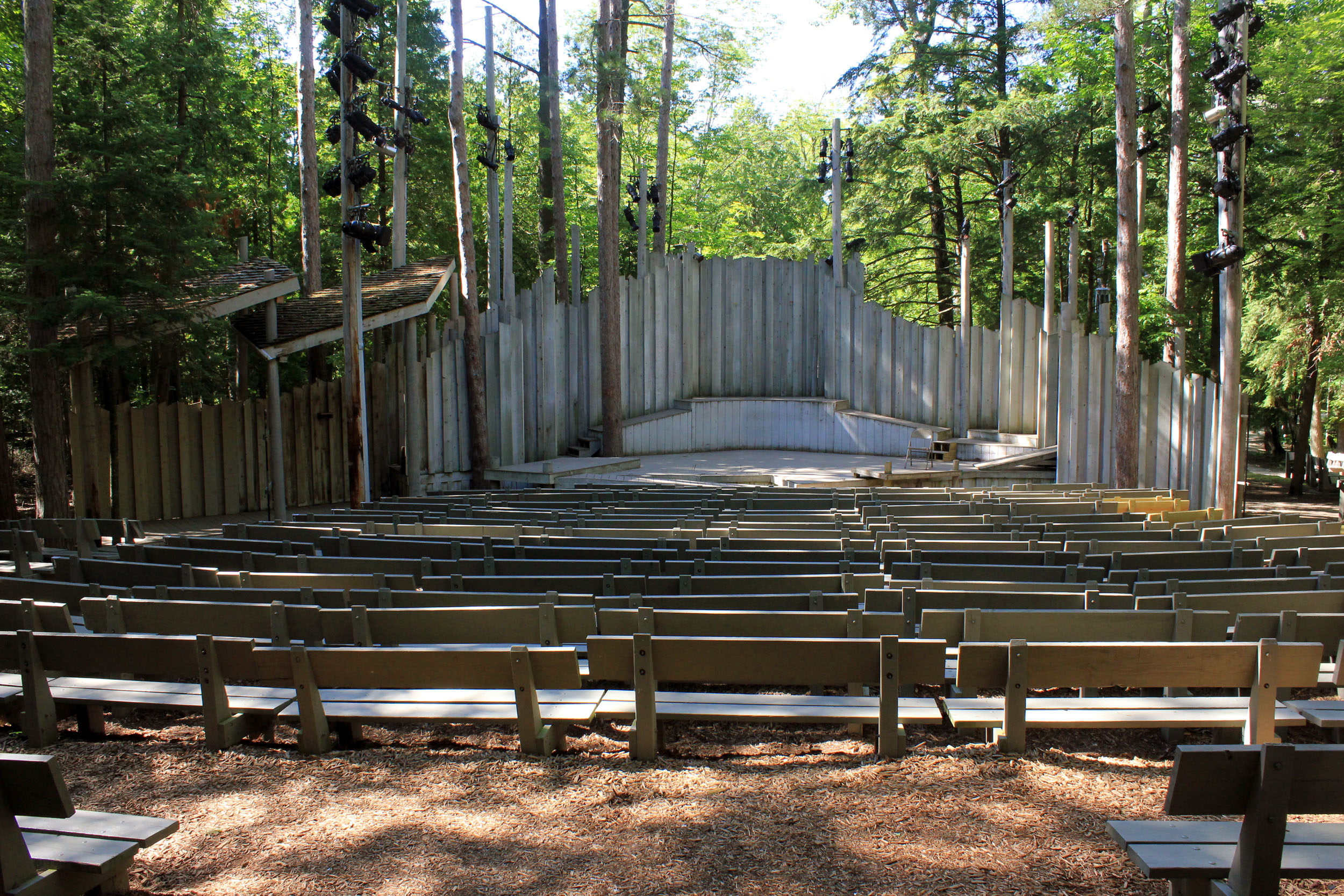 Peninsula State Park is a large state park covering 3776 acres that sits in Door County on the Green bay shoreline. There are scenic views of the bay, plays at Outdoor performing arts theatre